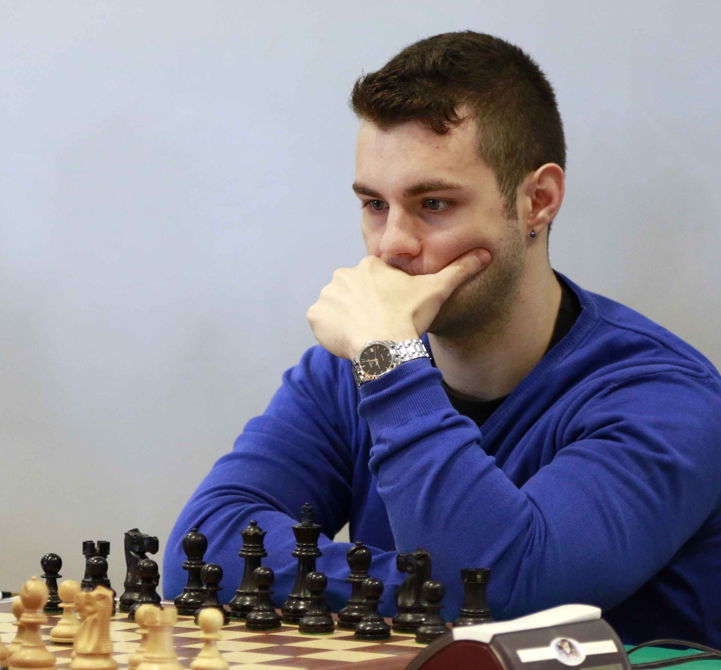 Daniele Vocaturo, Italian chess Grandmaster. Italian Team Championship, Civitanova Marche (Italy), April 29th/May 3rd, 2015.